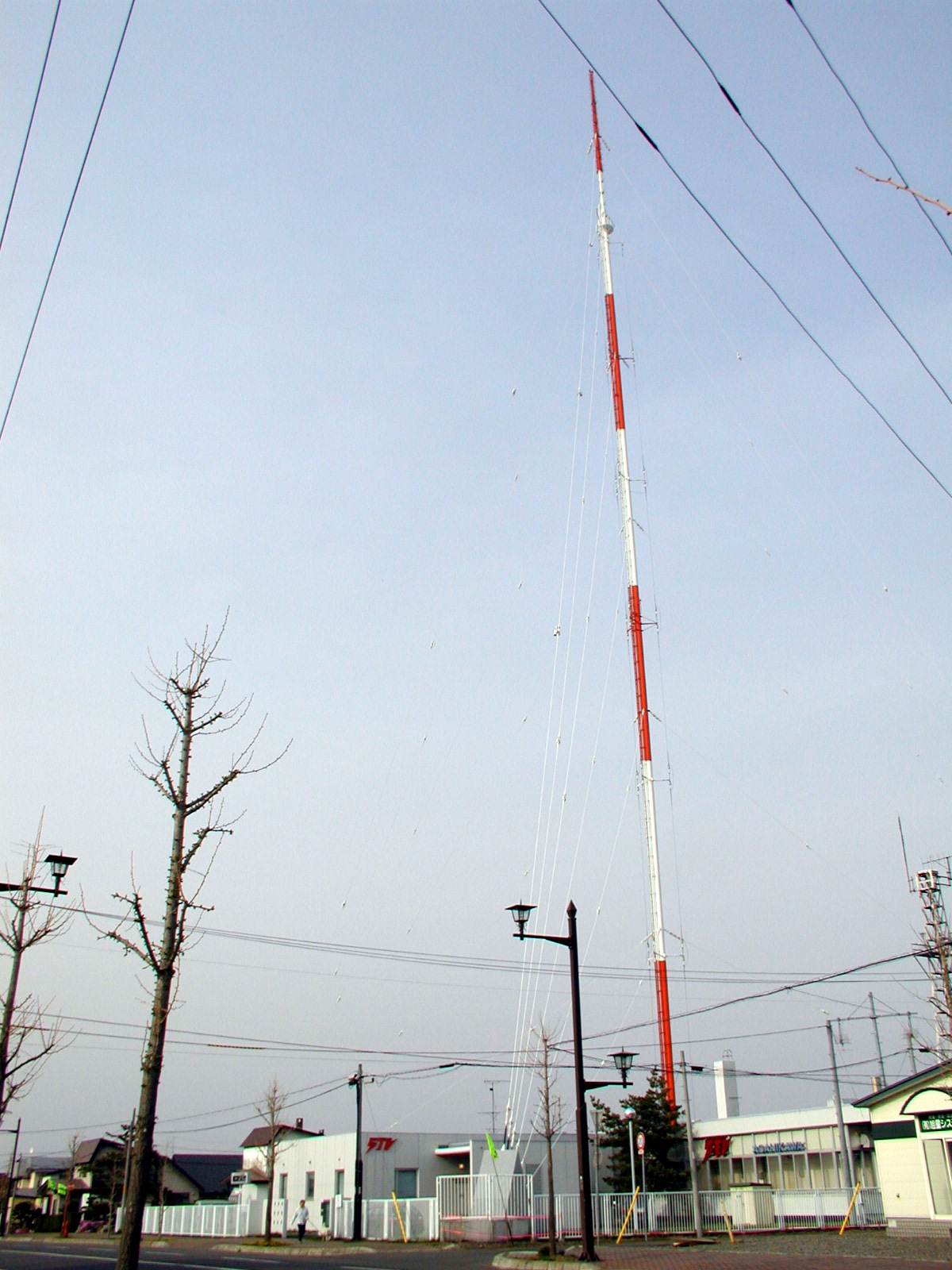 STV East-Asahikawa transmitter station, in Hokkaido, Japan